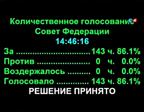 Results of Vote on the Anti-Magnitsky Act in Federation Council (2012-12-26)